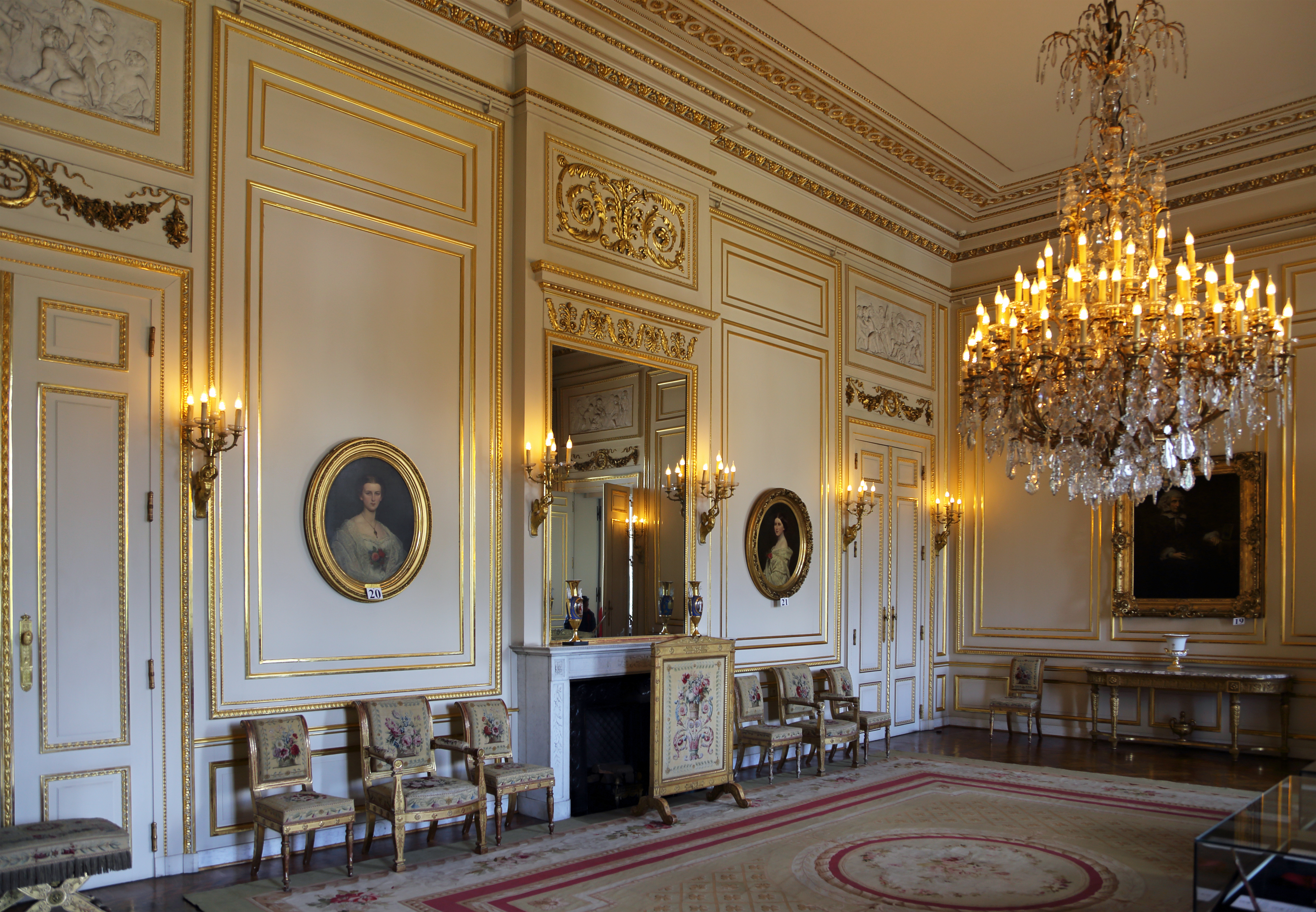 Brussels (Belgium): interior of the Royal Palace